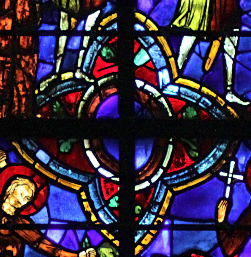 Stained window in Chartres cathedral - fragment.